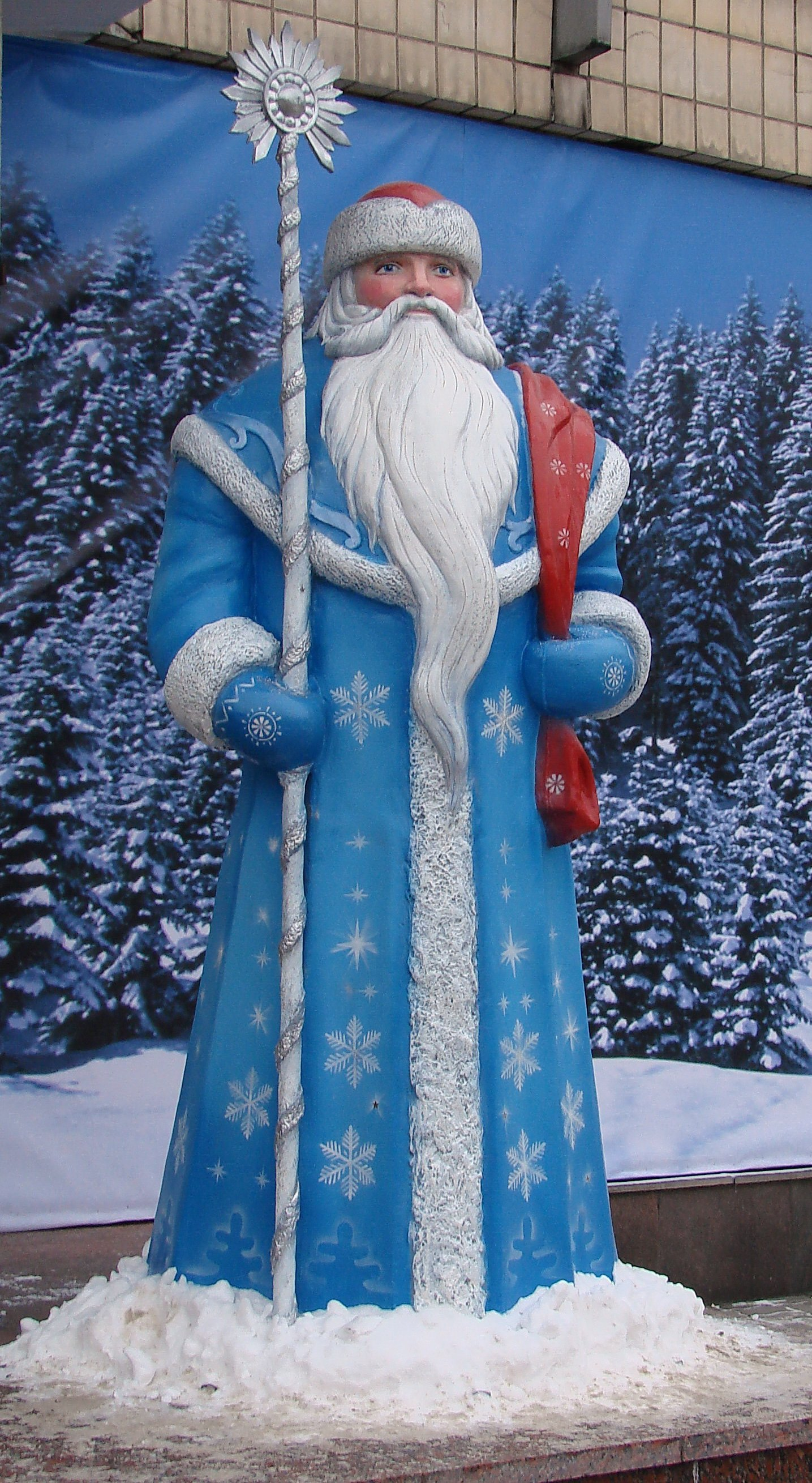 Russia, Vologda, Exhibition-Fair «Russian forest», Ded Moroz